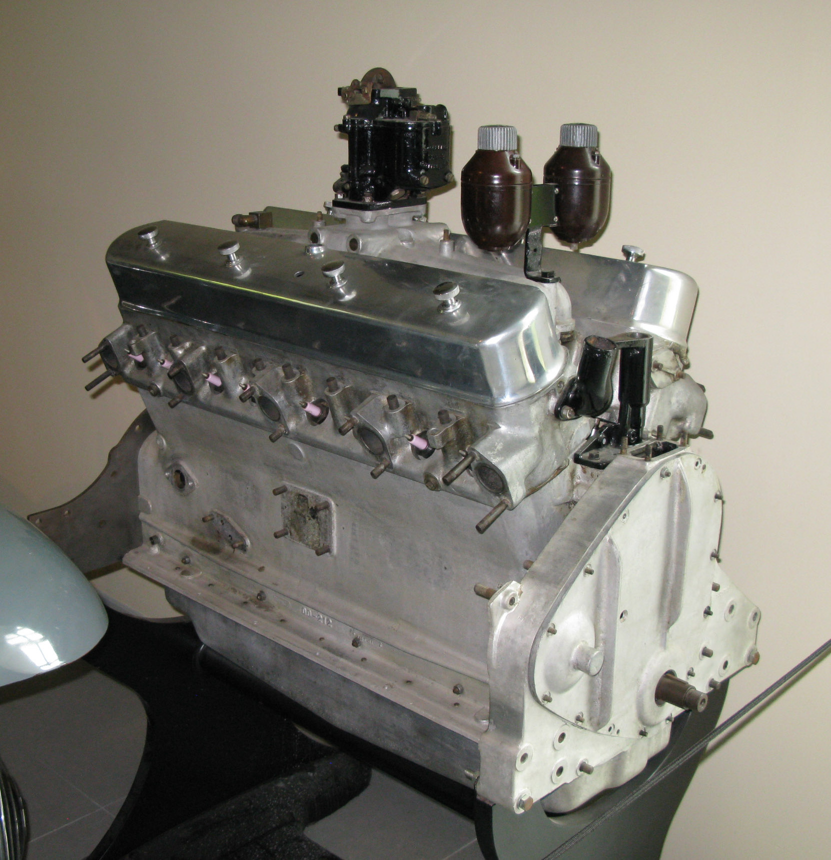 Early 1930s Marmon vee-sixteen engine.